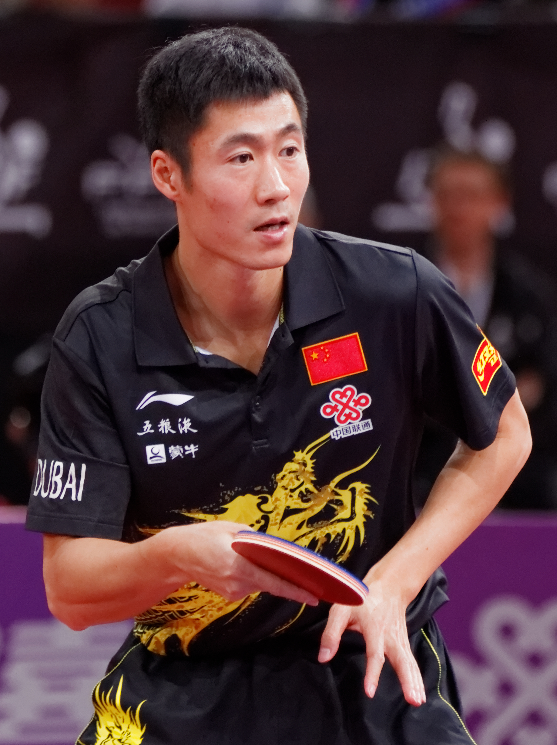 2013 World Table Tennis Championships, Paris. Men's Doubles Semifinals. Wang Liqin - Zhou Yu vs Chen Chien-an - Chuan Chih-yuan.